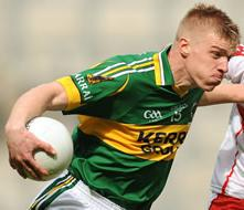 Kerry's Tommy Walsh in action in the 2009 National League final.